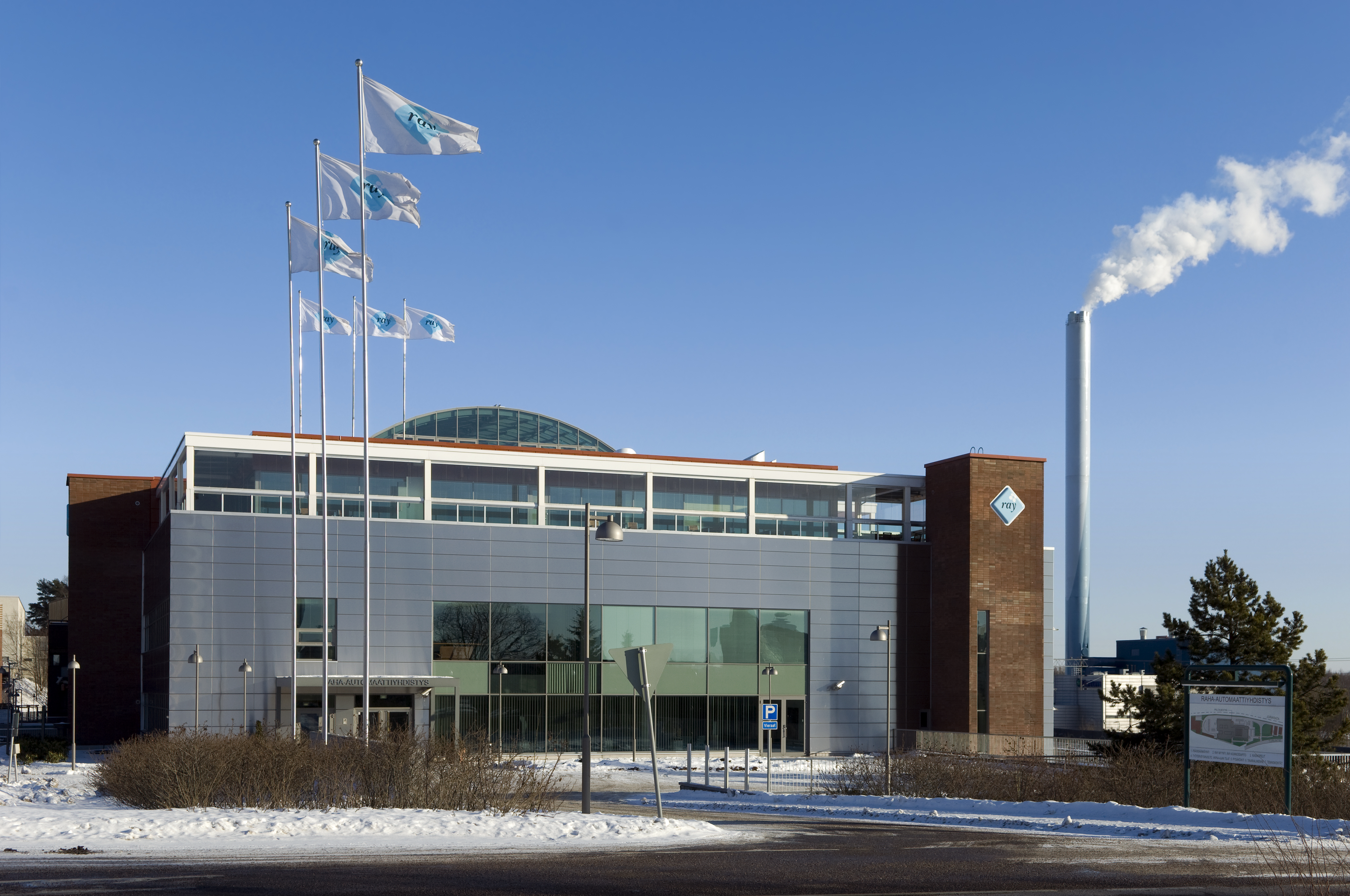 The headquarters of Raha-automaattiyhdistys (Finland’s Slot Machine Association), in Espoo, Finland. Raha-automaattiyhdistys is generally referred to as RAY.